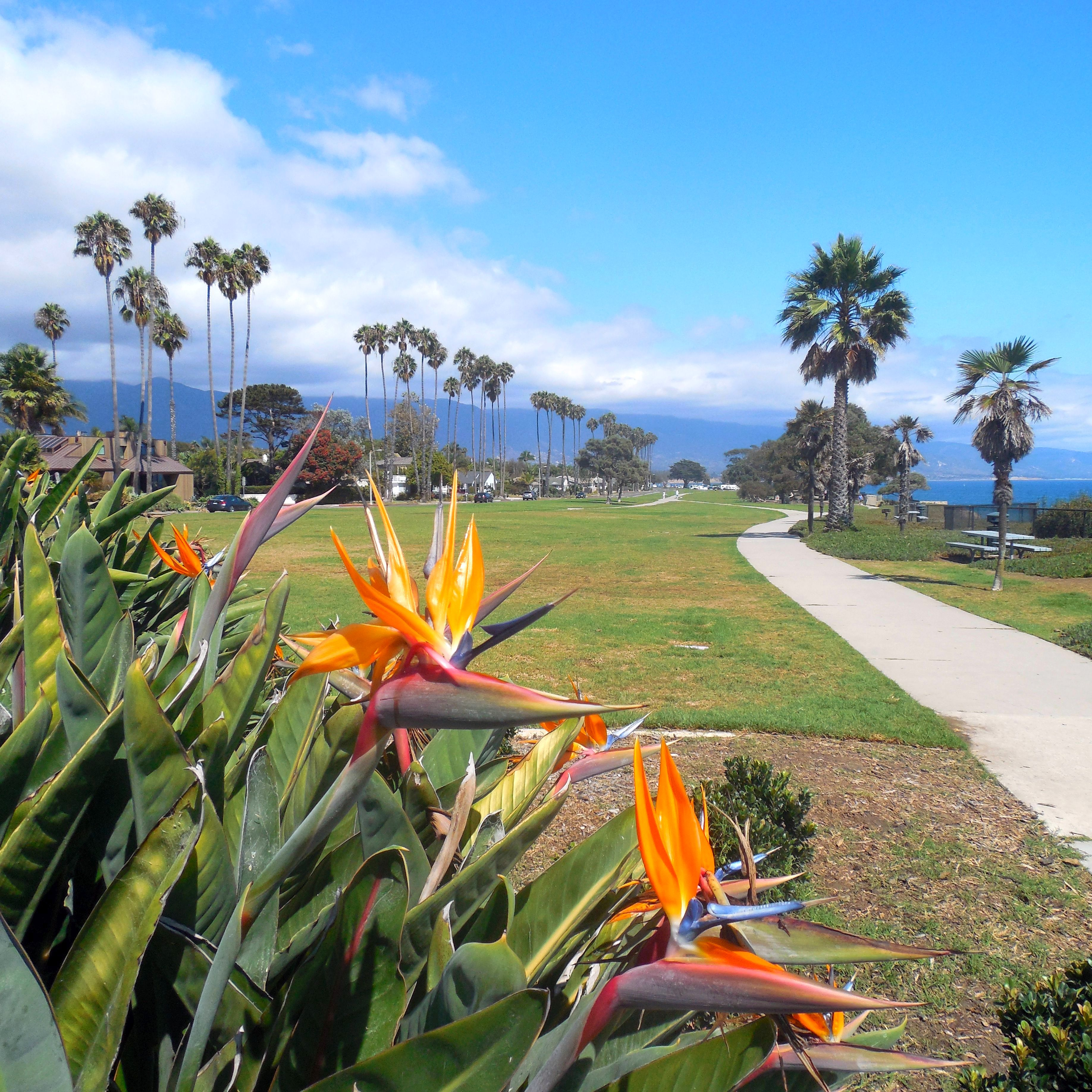 Bird of Paradise (flower) along the western side of Shoreline Park, west of MacGillivray Point (looking east), Santa Barbara, California, Sep 2015